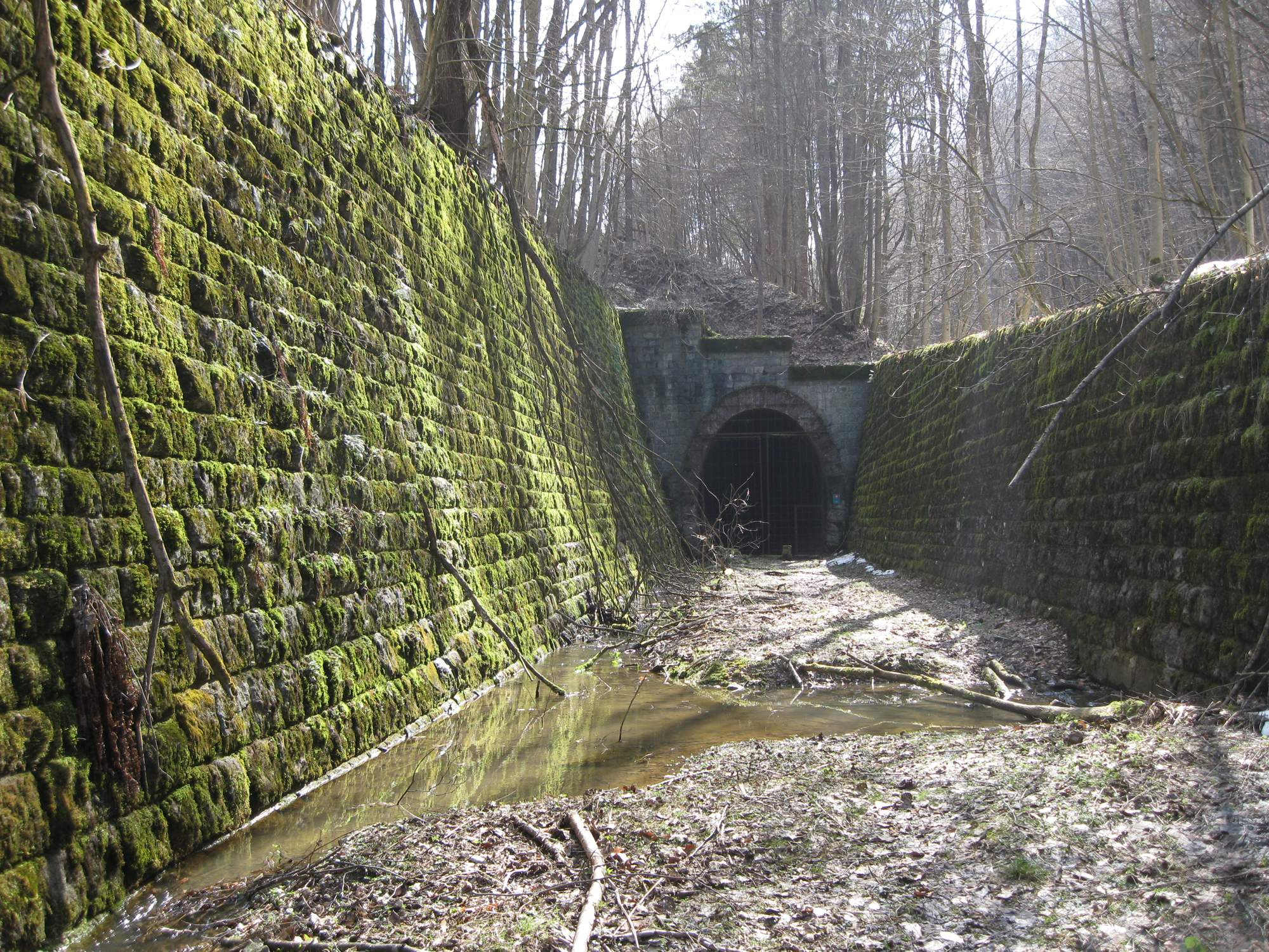 Tunel pod Dielikom - Muráňsky portál